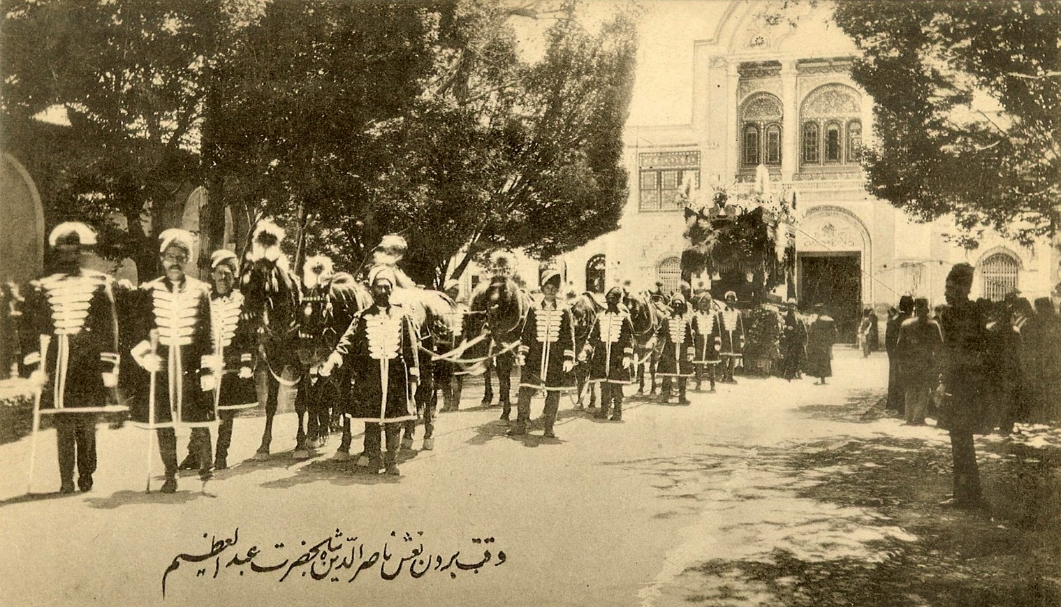 Funerals of Shah Nasser al-Din of Persia in May 1896. Cropped from a postcard issued circa 1900-1905.